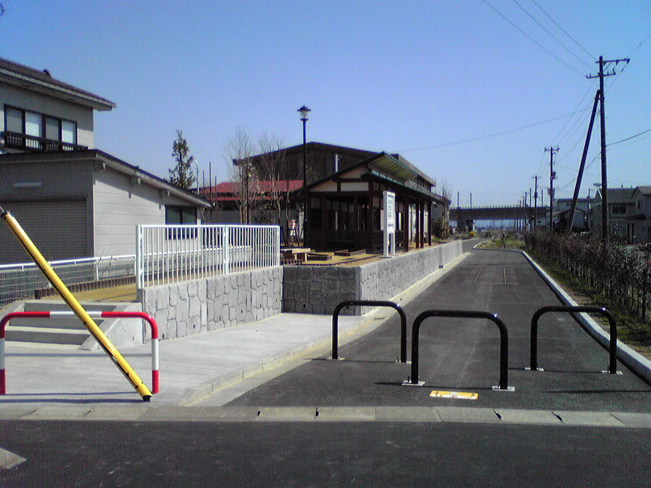 Site of Niigata Kotsu Railway Konakagawa Station platform, which was abolished on 1 August 1993